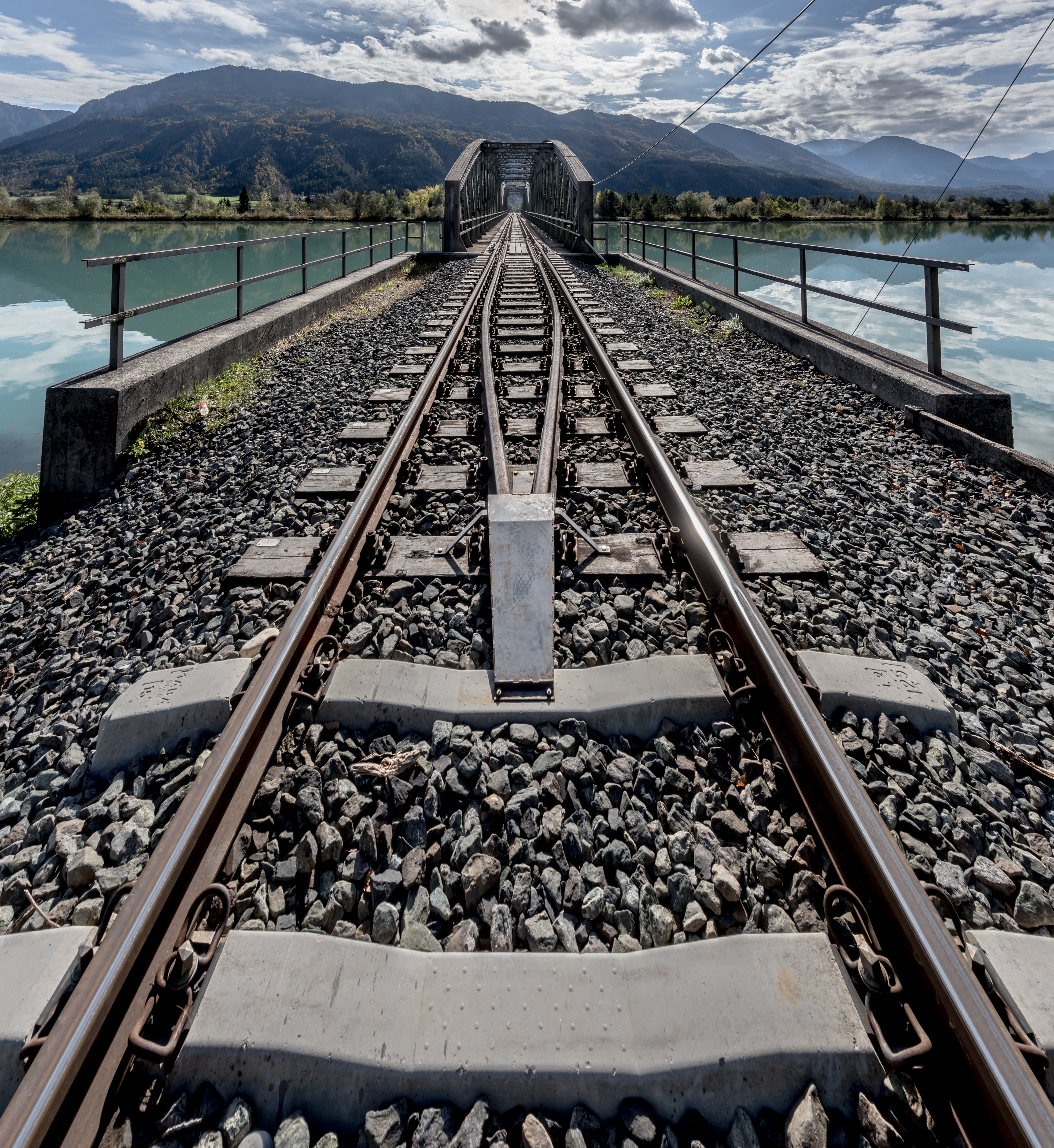 Railway bridge across the Ferlach reservoir of the river Drava in Unterschlossberg (submontane the castle Hollenburg), municipality Koettmannsdorf, district Klagenfurt Land, Carinthia, Austria, EU